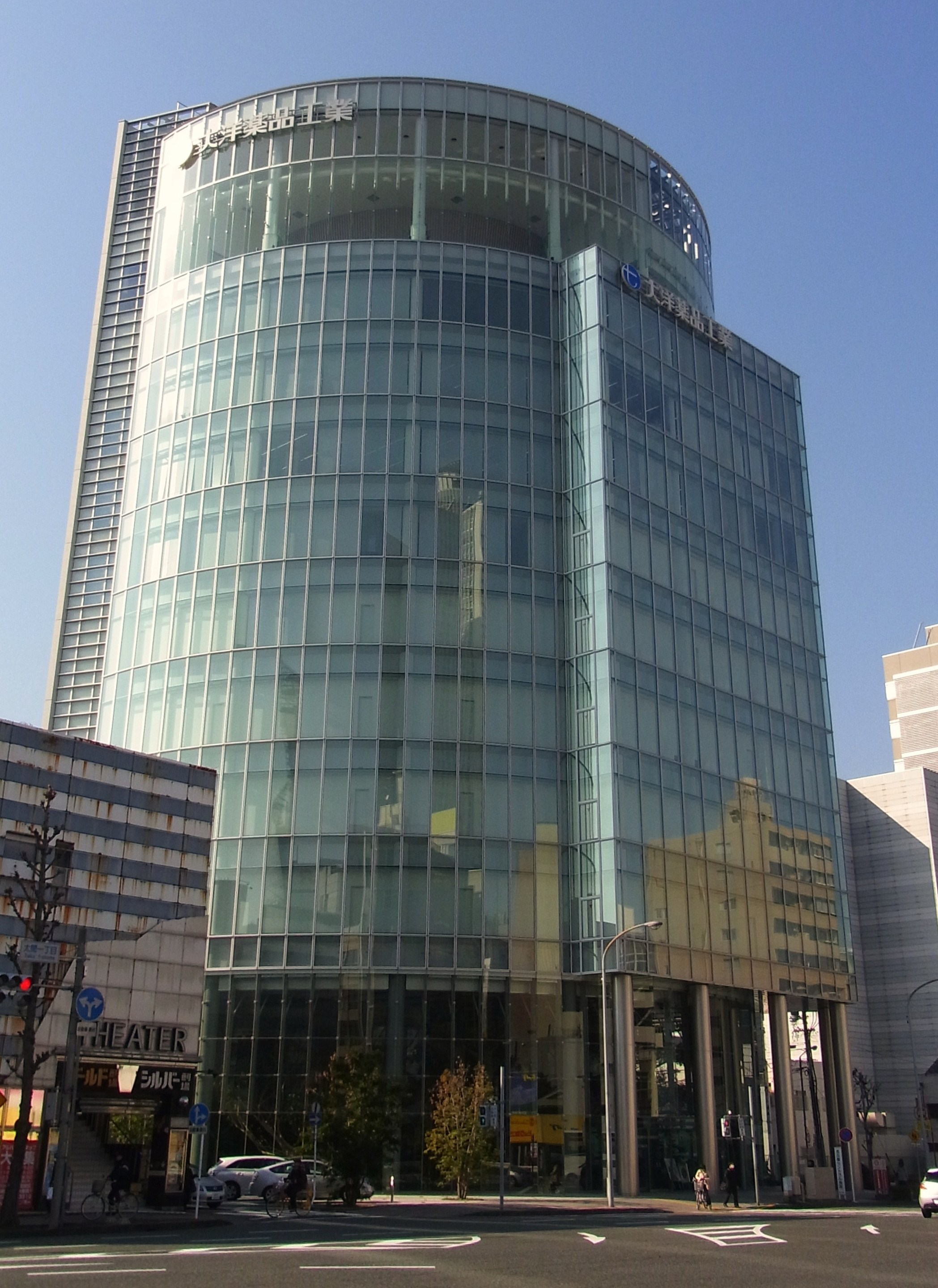 Headquarters building of Taiyo phamaceutical Co.,LTD. in Nakamura-ku Ward, Nagoya City.